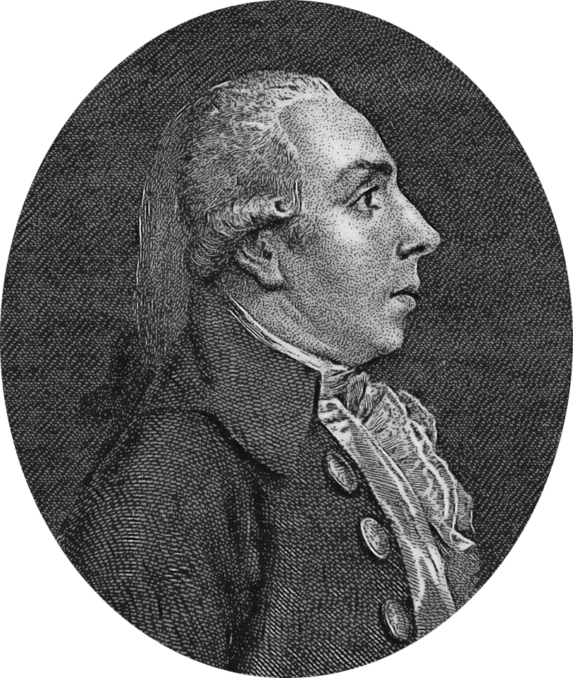 Johann Baptist von Alxinger (1755-1797) Picture from Bilderatlas zur Geschichte der deutschen Nationallitteratur by Gustav Könnecke. Second Edition. Marburg: Elwert 1895.